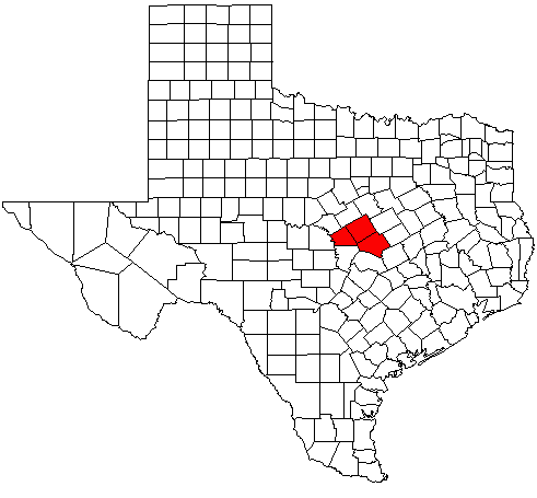 Map of Texas highlighting the Killeen-Temple-Fort Hood Metropolitan Statistical Area